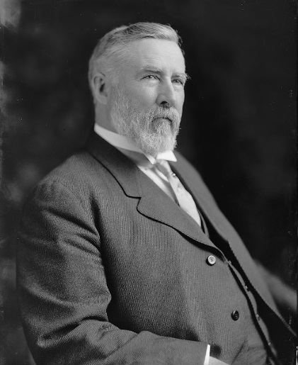 Nelson Platt Wheeler (Pennsylvania Congressman)